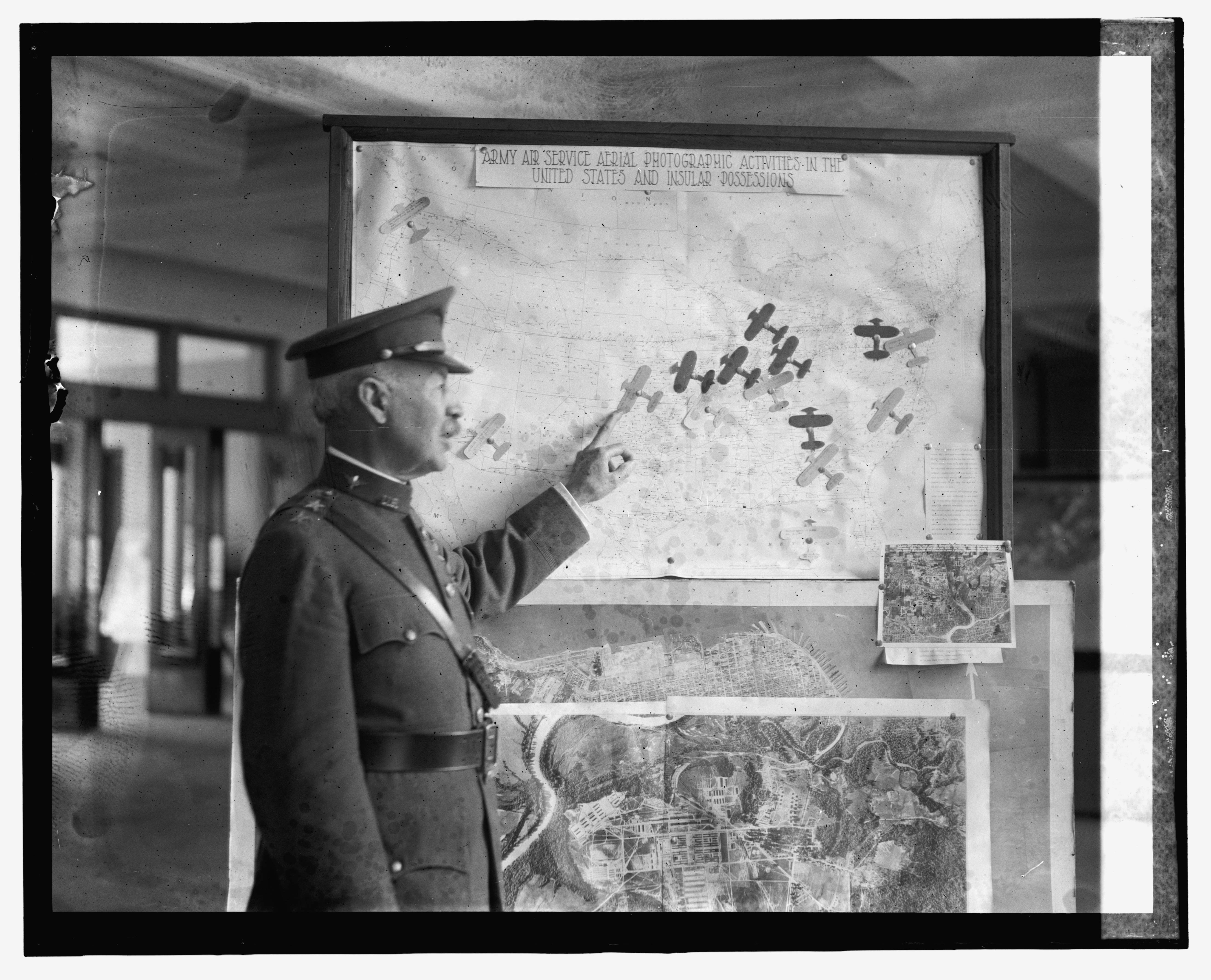 Title: Gen'l Mason M. Patrick, 6/28/24 Abstract/medium: National Photo Company Collection (Library of Congress) Physical description: 1 negative